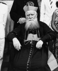 Mgr. Jan Pacificus Bos, Vicar Apostolic Emeritus of Dutch Borneo {Borneo Olandese}, Indonesia